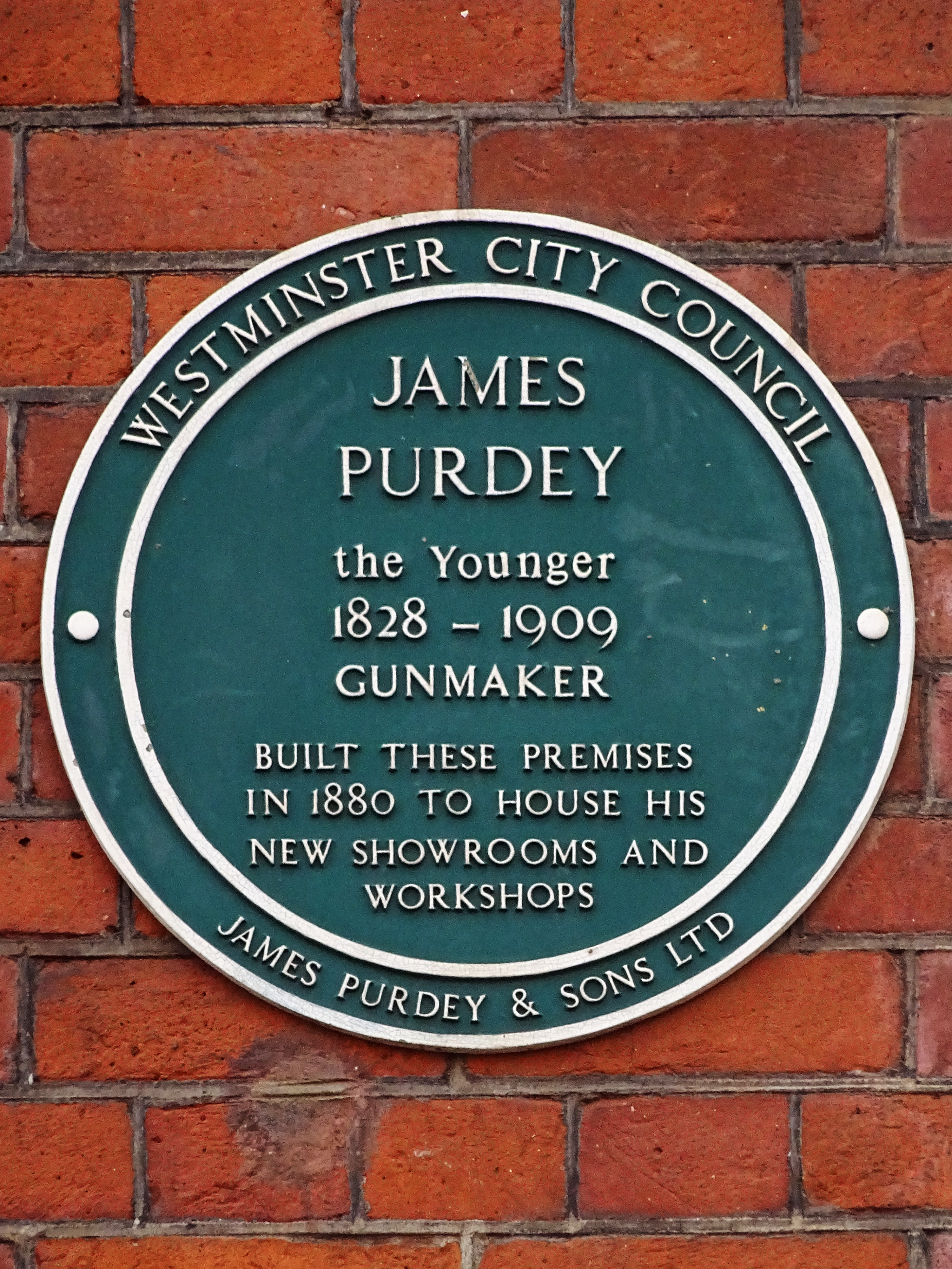 Green plaque erected by City of Westminster at 57-58 South Audley Street, Mayfair, London W1K 2ED on 30th April 1992